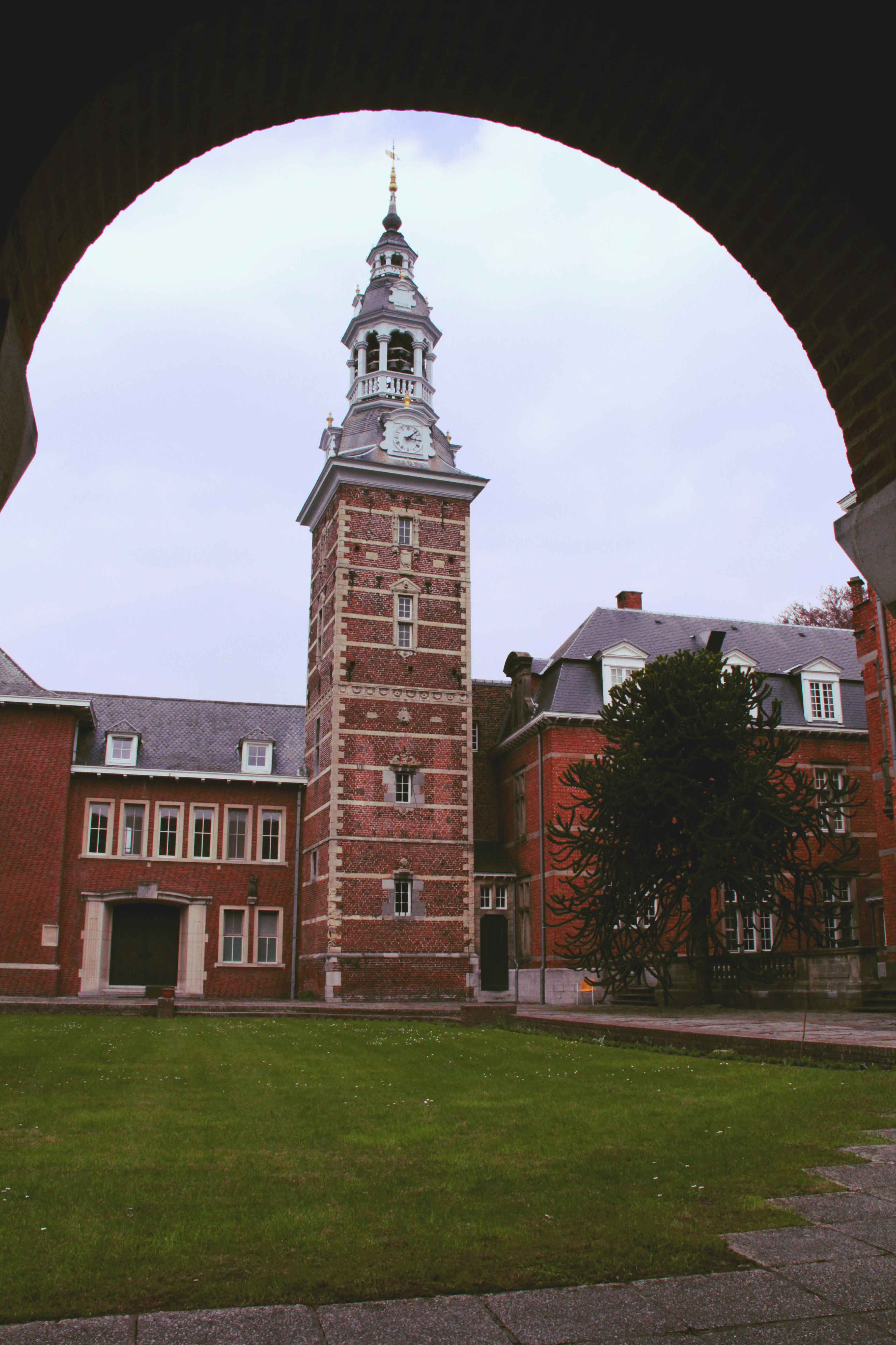 Carillon Tower Postel